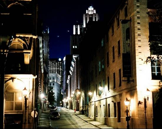 Saint-Sulpice Street